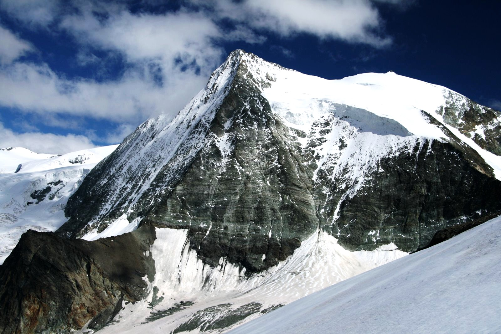 Mont Blanc de Cheilon from north-west